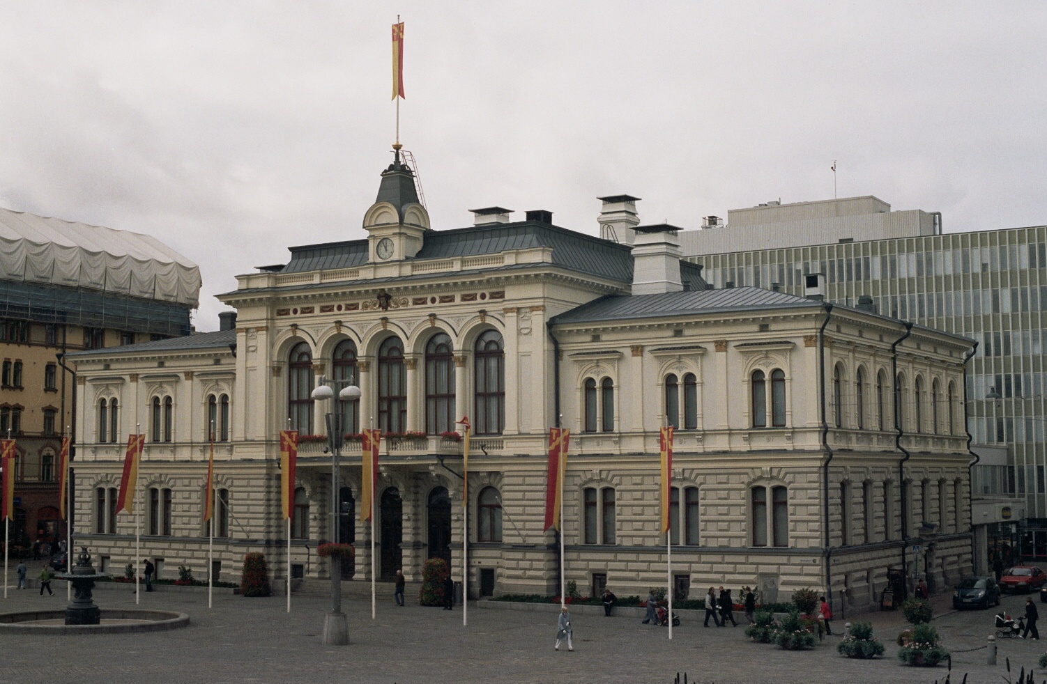 The old City Hall of Tampere, Finland. The building is located at the Central Square. It was designed by Georg Schreck and built in 1890.